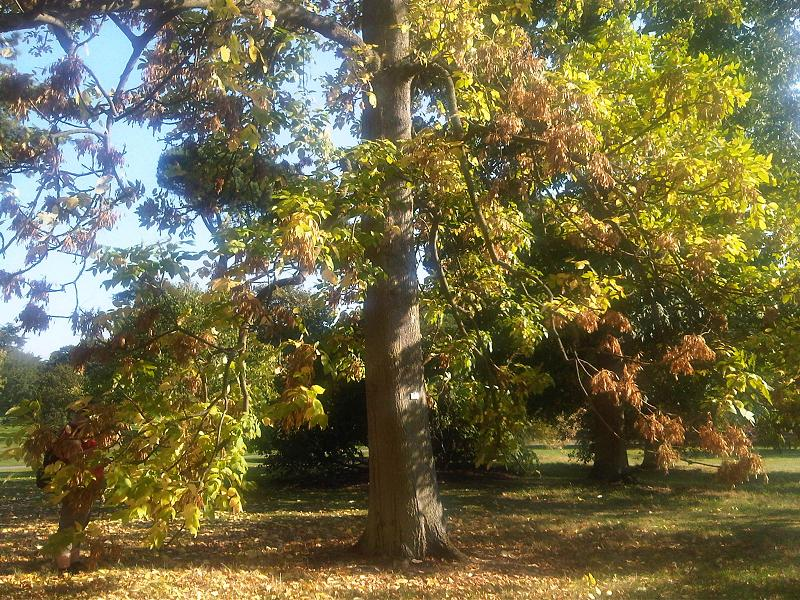 Oregon ash (Fraxinus latifolia) in Kew Gardens, England.